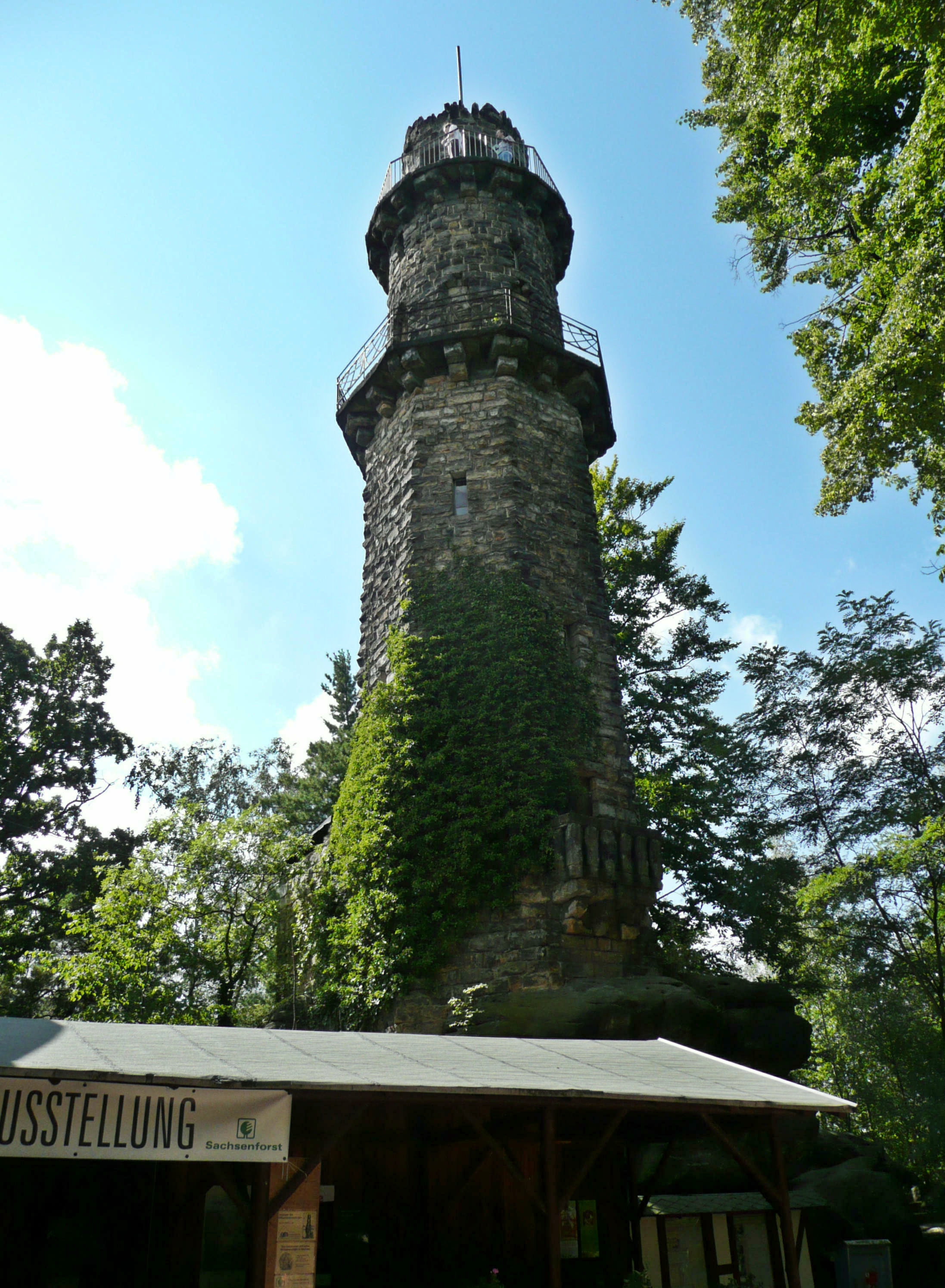 This image shows the view tower (29 m) on top of the Pfaffenstein (437 m) in the Saxon Switzerland.